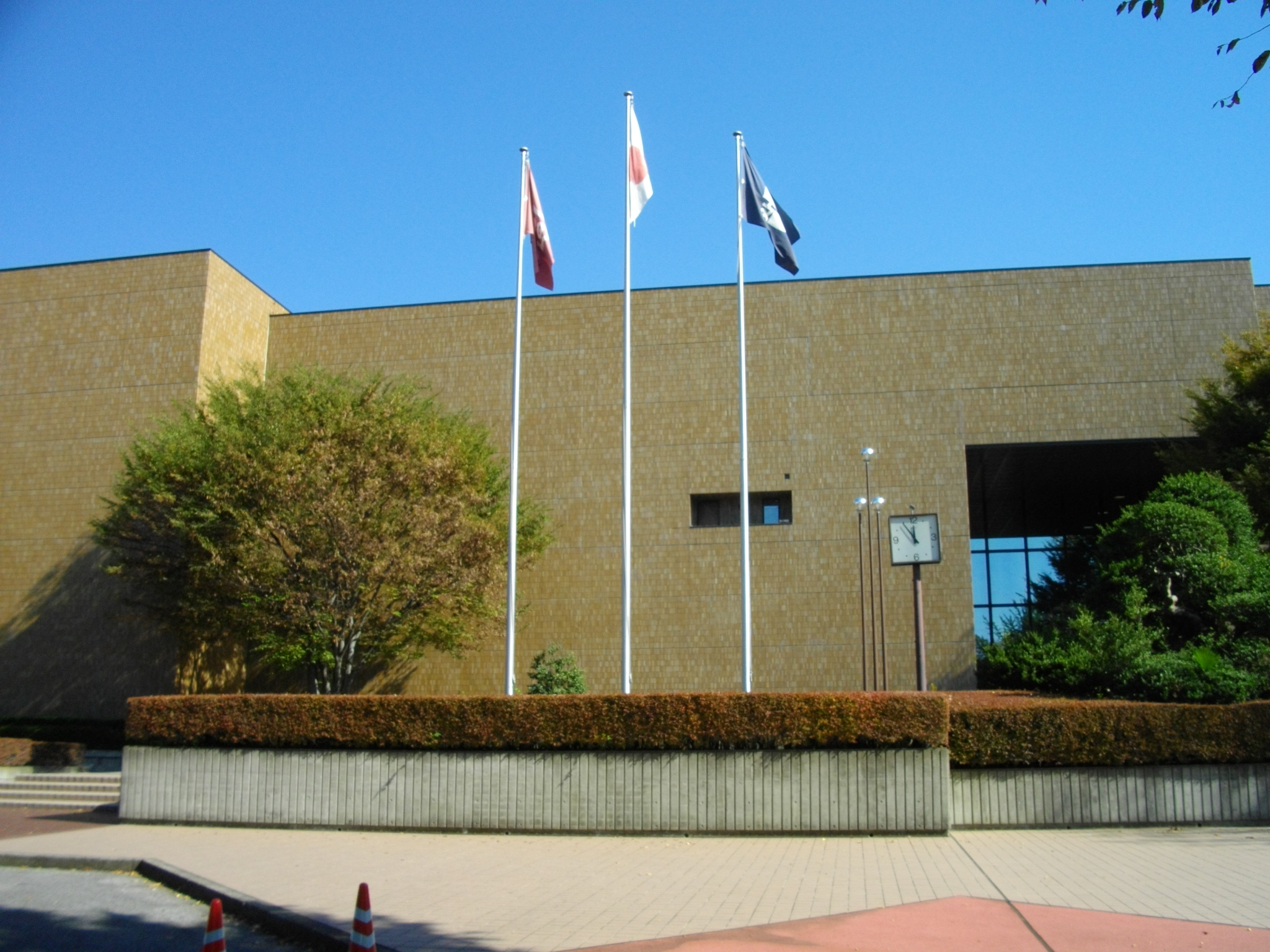 Utsunomiya City Cultural Hall